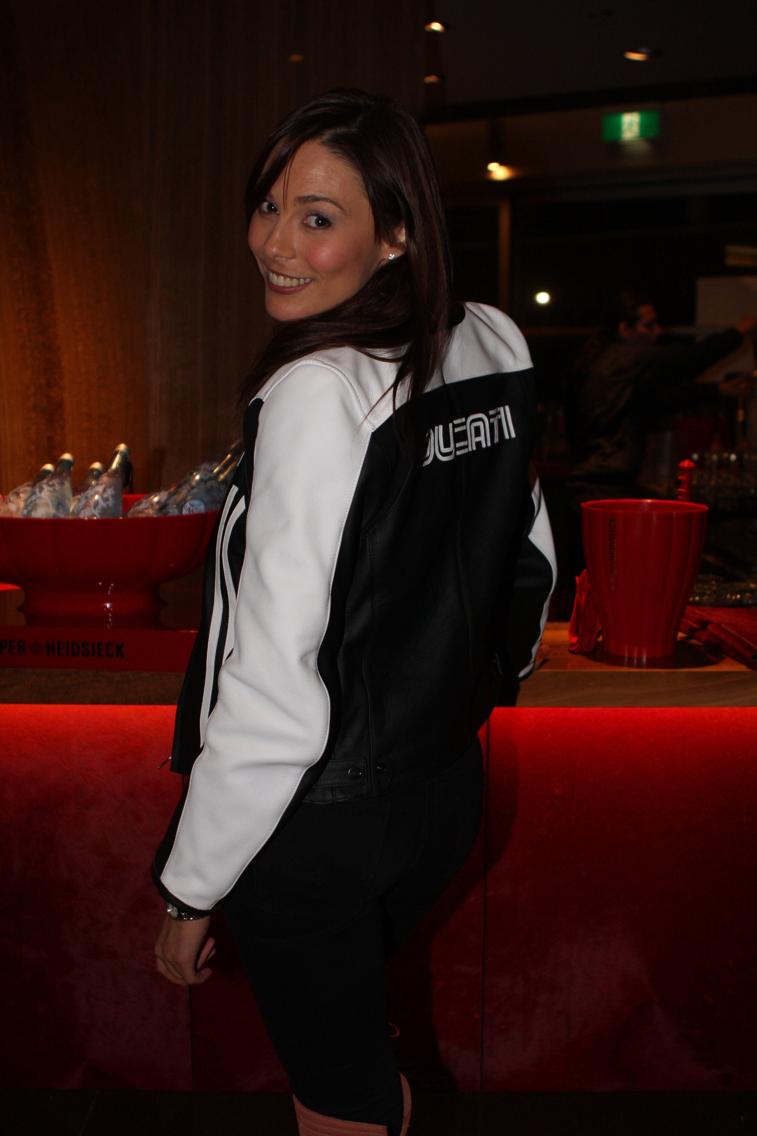 Zoe Naylor, Ducati Launch 2011